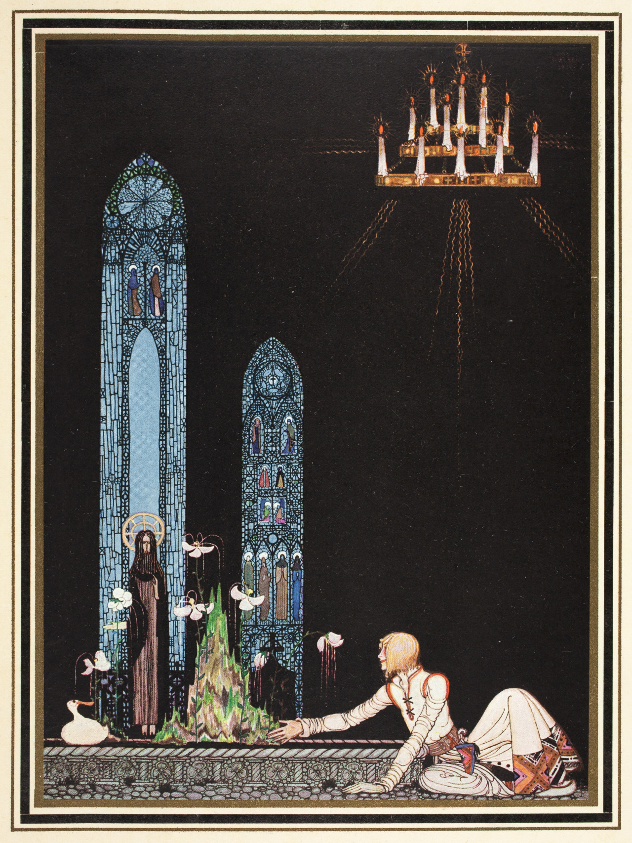 ‘“On that island stands a church; in that church is a well; in that well swims a duck.”’ Illustration by Kay Nielsen in East of the sun and west of the moon (1914). In the early twentieth century several English publishers issued a series of collector’s editions of children’s literature. These gift books, specially bound in gold-tooled vellum, were elaborately illustrated with coloured plates by the best illustrators of the time such as Arthur Rackham, Edmund Dulac, Hugh Thomson, and Heath Robinson. One of the most stunning is East of the sun and west of the moon illustrated by the Danish illustrator, Kay Nielsen. Nielsen (1886-1957) was born in Denmark and studied art in Paris. He was influenced by the styles of Aubrey Beardsley, Edward Burne-Jones and the influx of Japanese art that was spreading to the West at this time. East of the sun was his second book and is considered to be his masterpiece and one of the most beautiful illustrated children’s books ever produced. Nielsen’s burgeoning career was interrupted by World War I, and never really recovered. His publisher, Hodder & Stoughton tried unsuccessfully to reinvigorate the market for gift books after the war and in 1924 and 1925 issued two further fairy tales books illustrated by Nielsen, but these were on a more modest scale and the demand for extravagant books of this type had gone. Nielsen fell into obscurity and died in poverty in 1957.